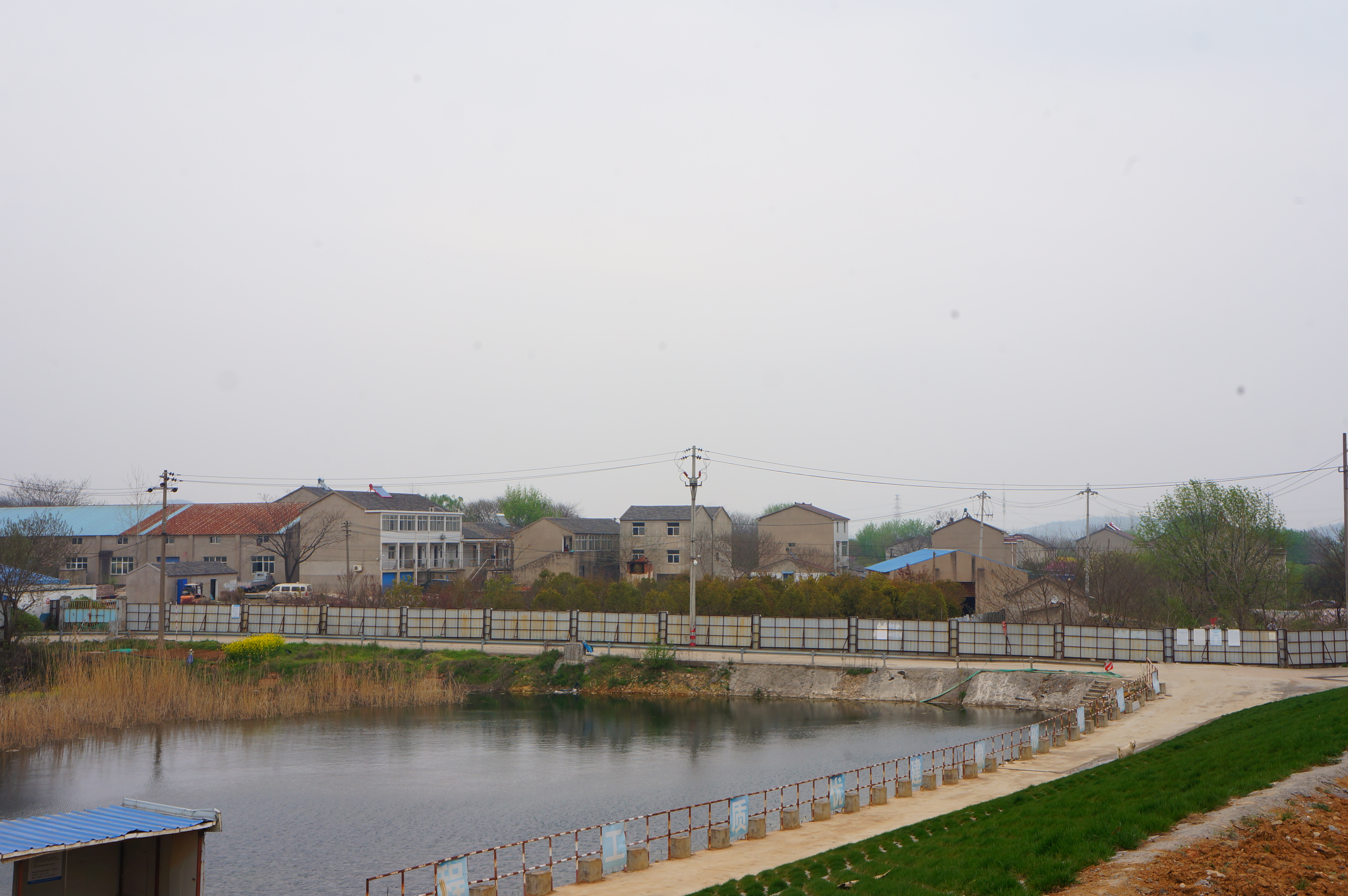 201704 Xiliu Village. Some NJM L4 Stations in Jiangning District are ahead of planning.